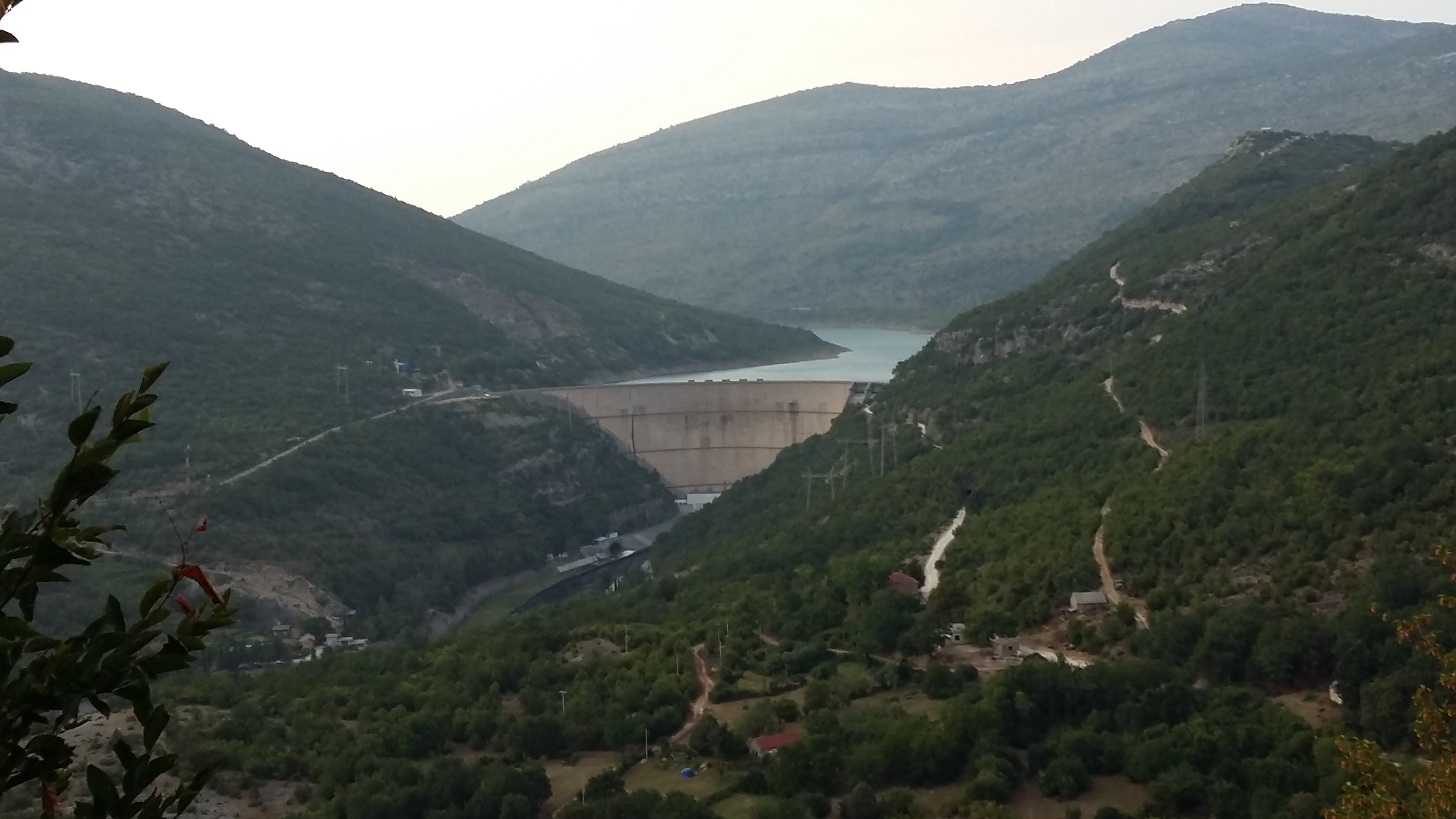 The Hydroelectric power station "HE Trebinje I" of the bosnian company "Hidroelektrane na Trebišnjici" (Hydro electric power stations on the Trebišnjica), a subsidiary company of the Elektroprivreda Republike Srpske.